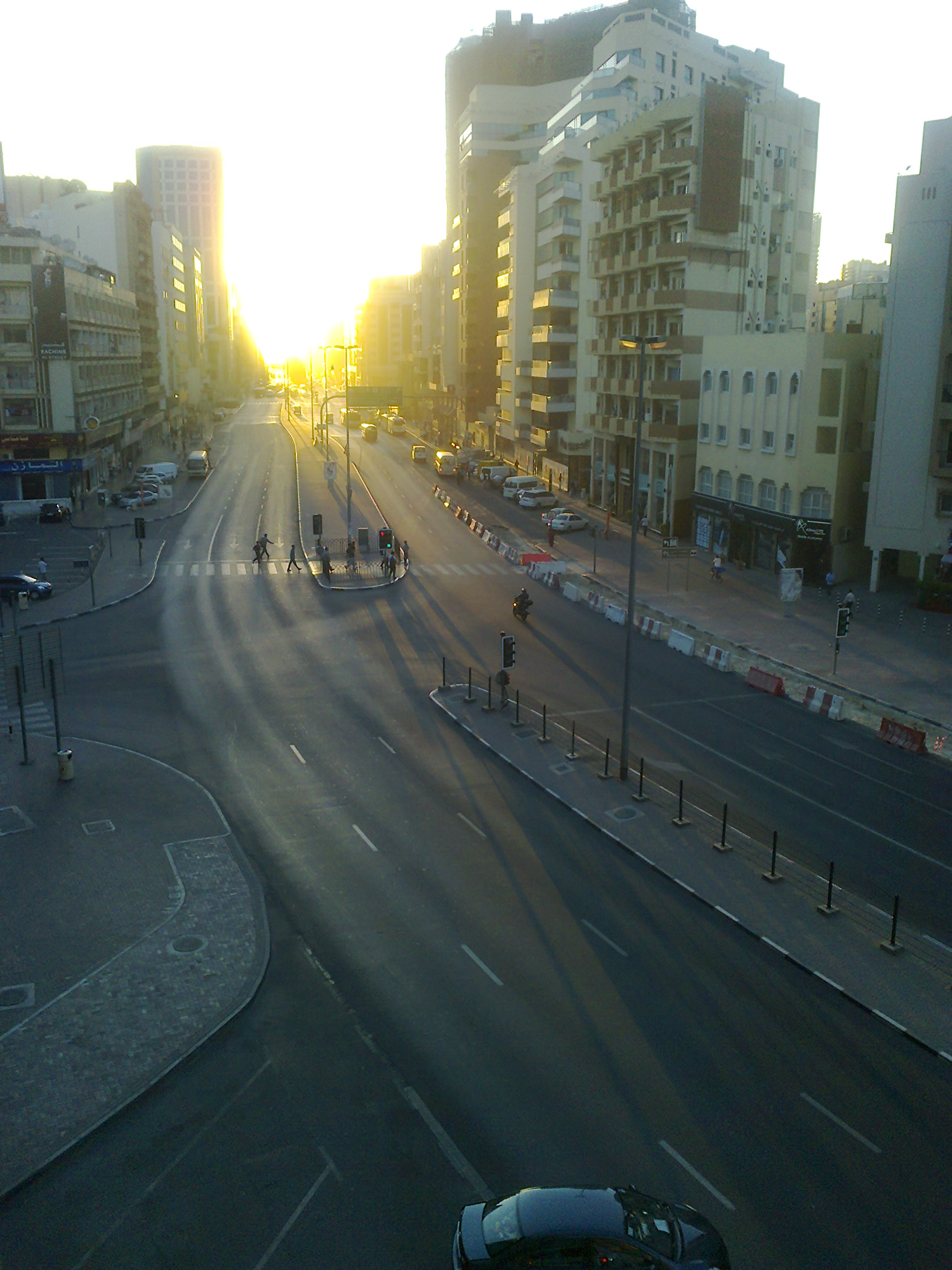 View of Khalid bin Waleed Street